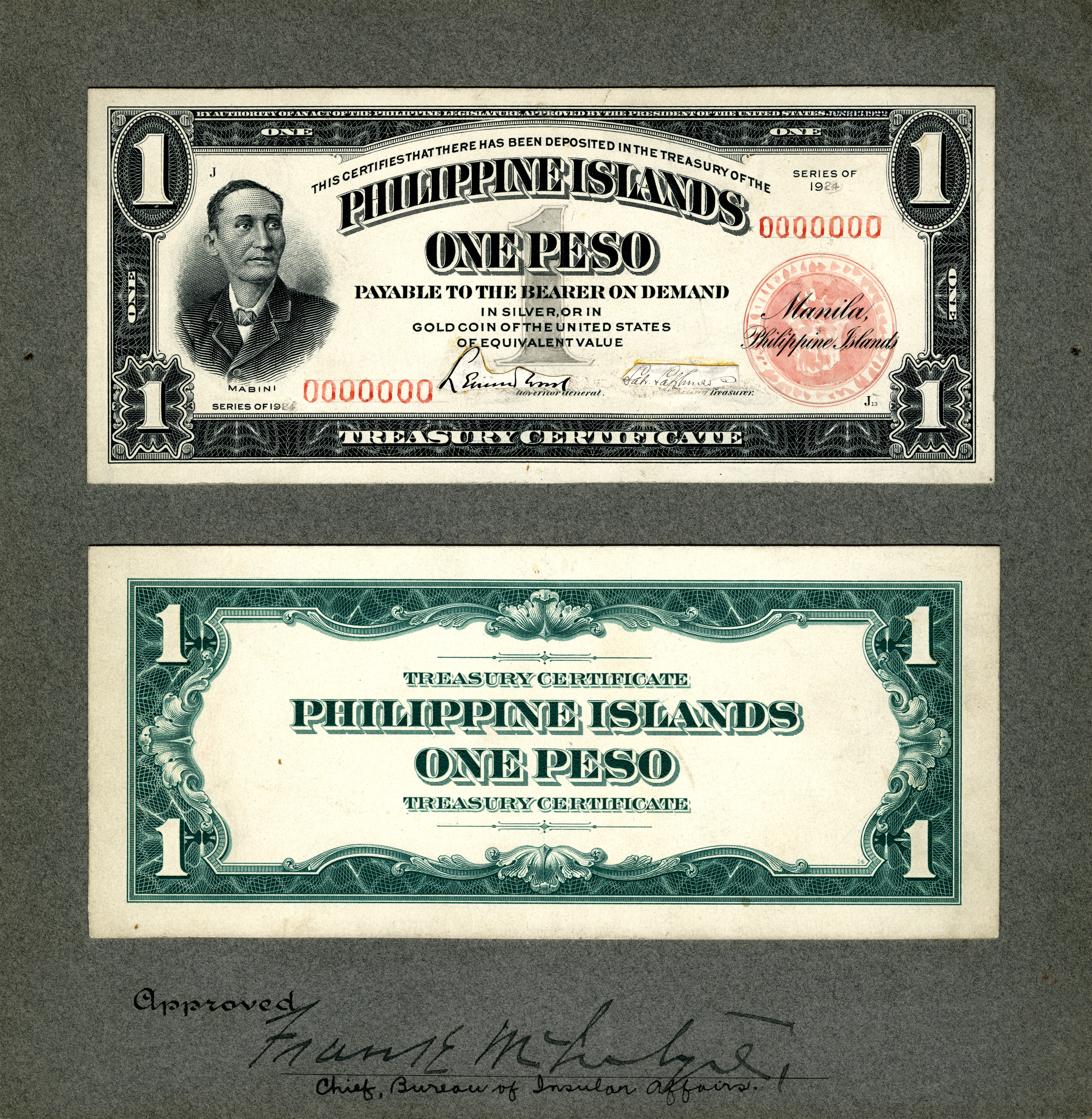 PHI-68c-Philippine Islands-Treasury Certificate-1 Peso (1924) Design proof